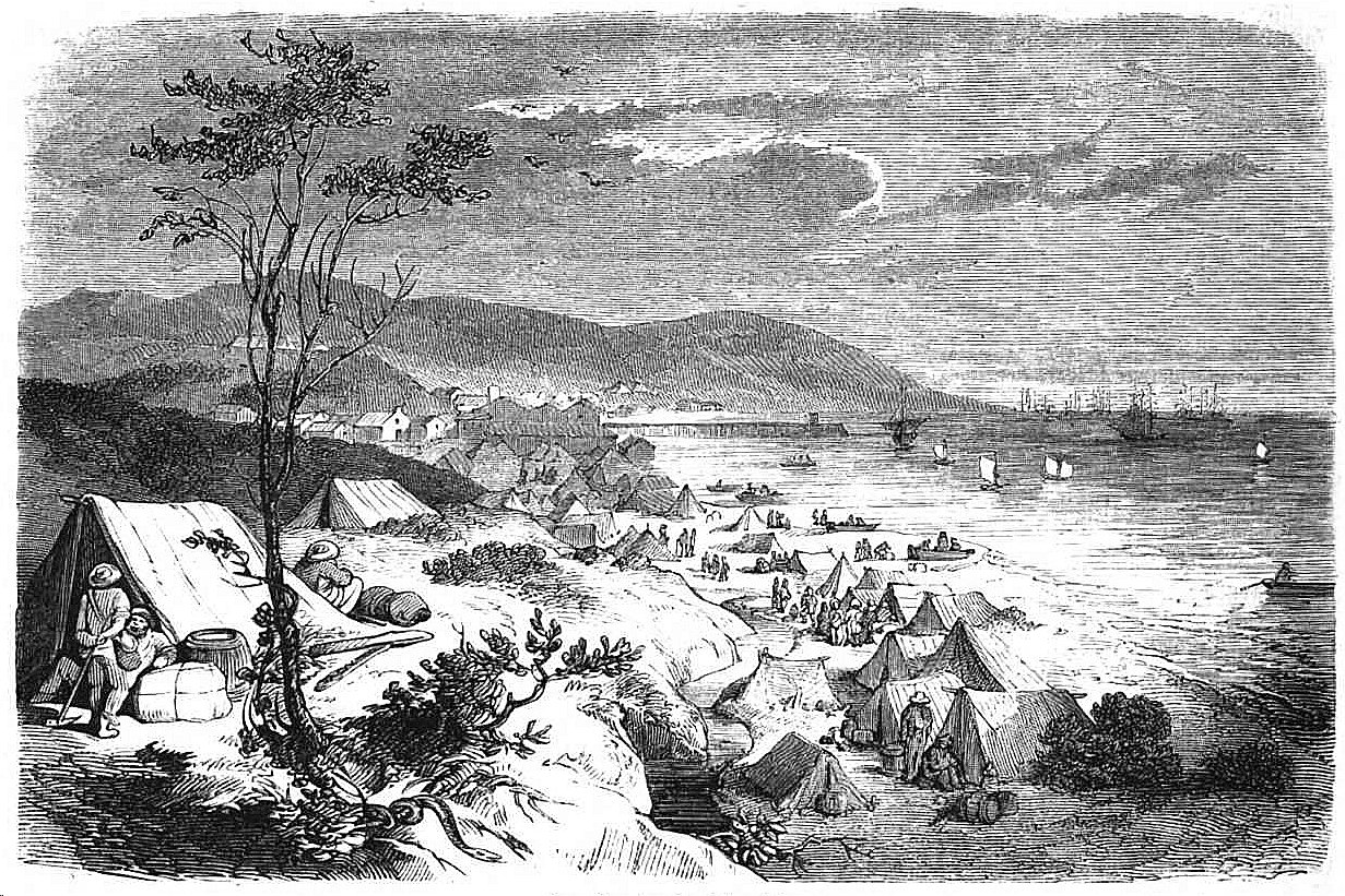 caption: "San Francisco im Jahre 1849."